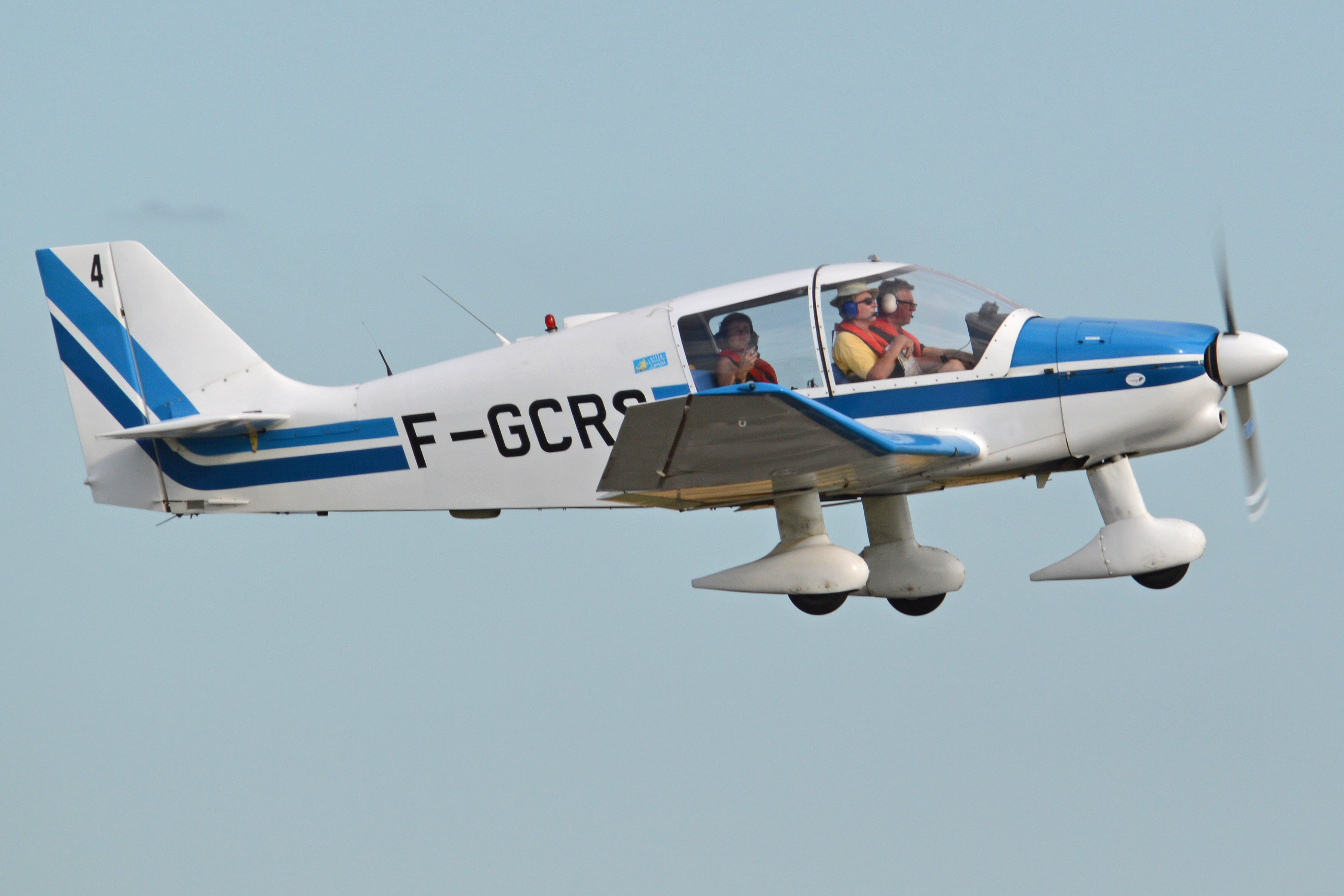 c/n 1485. Built 1980. Seen departing after visiting at the 2017 Flying Legends Airshow, Duxford Airfield, Cambridgeshire, UK. 8th July 2017